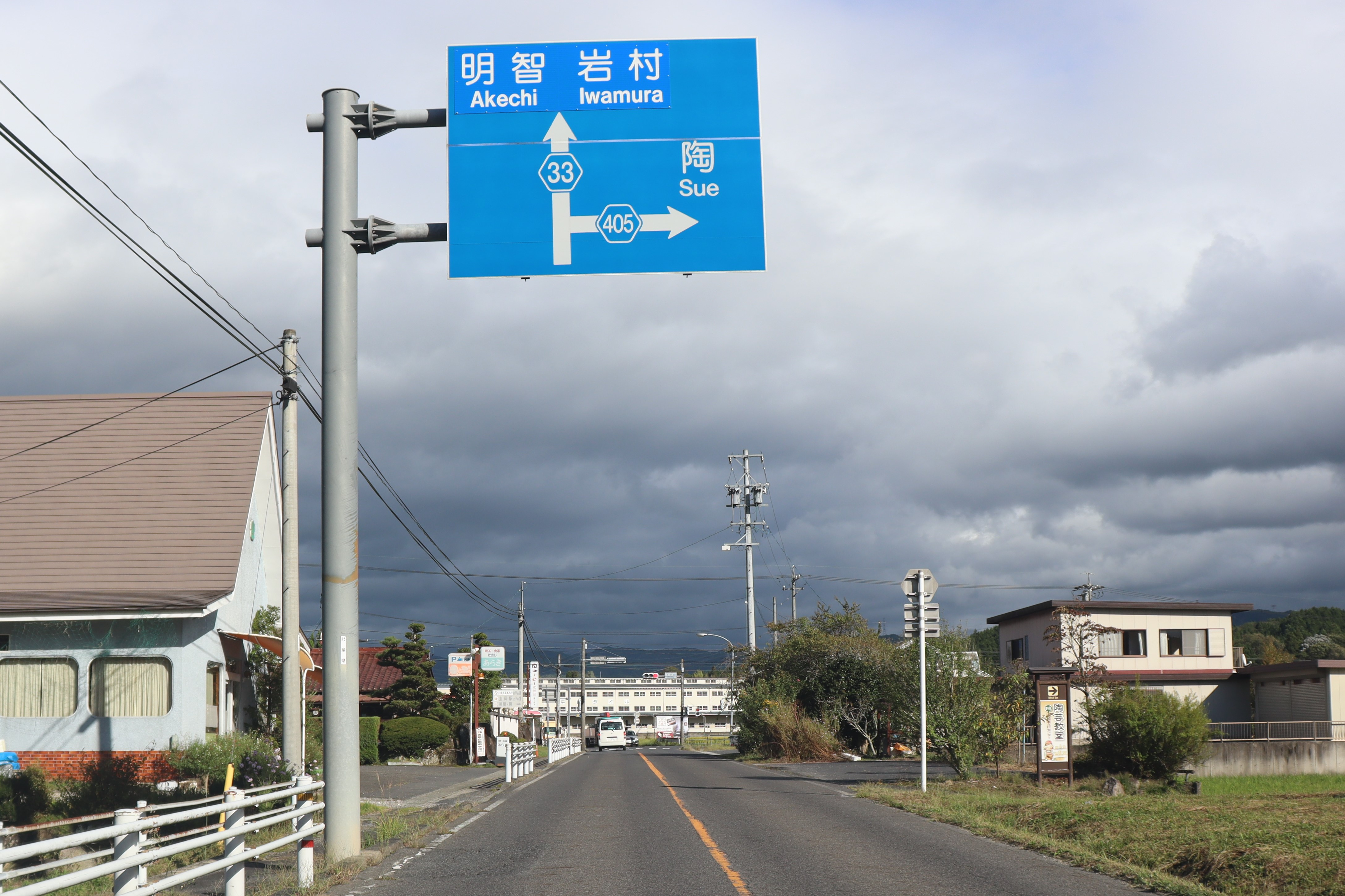 Gifu Prefectural Road Route 33 and Gifu Prefectural Road Route 405 in Shimotoge, Yamaokacho, Ena, Gifu Prefecture, Japan.